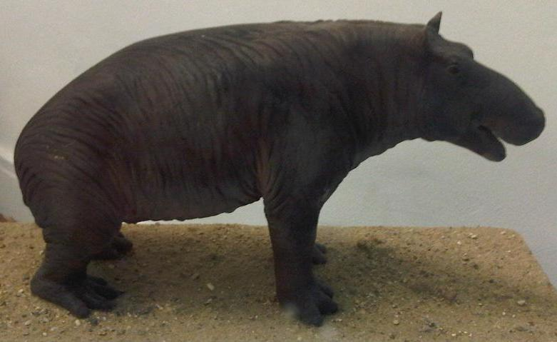 Paleoparadoxia tabatai model at the Natural History Museum in London, England.